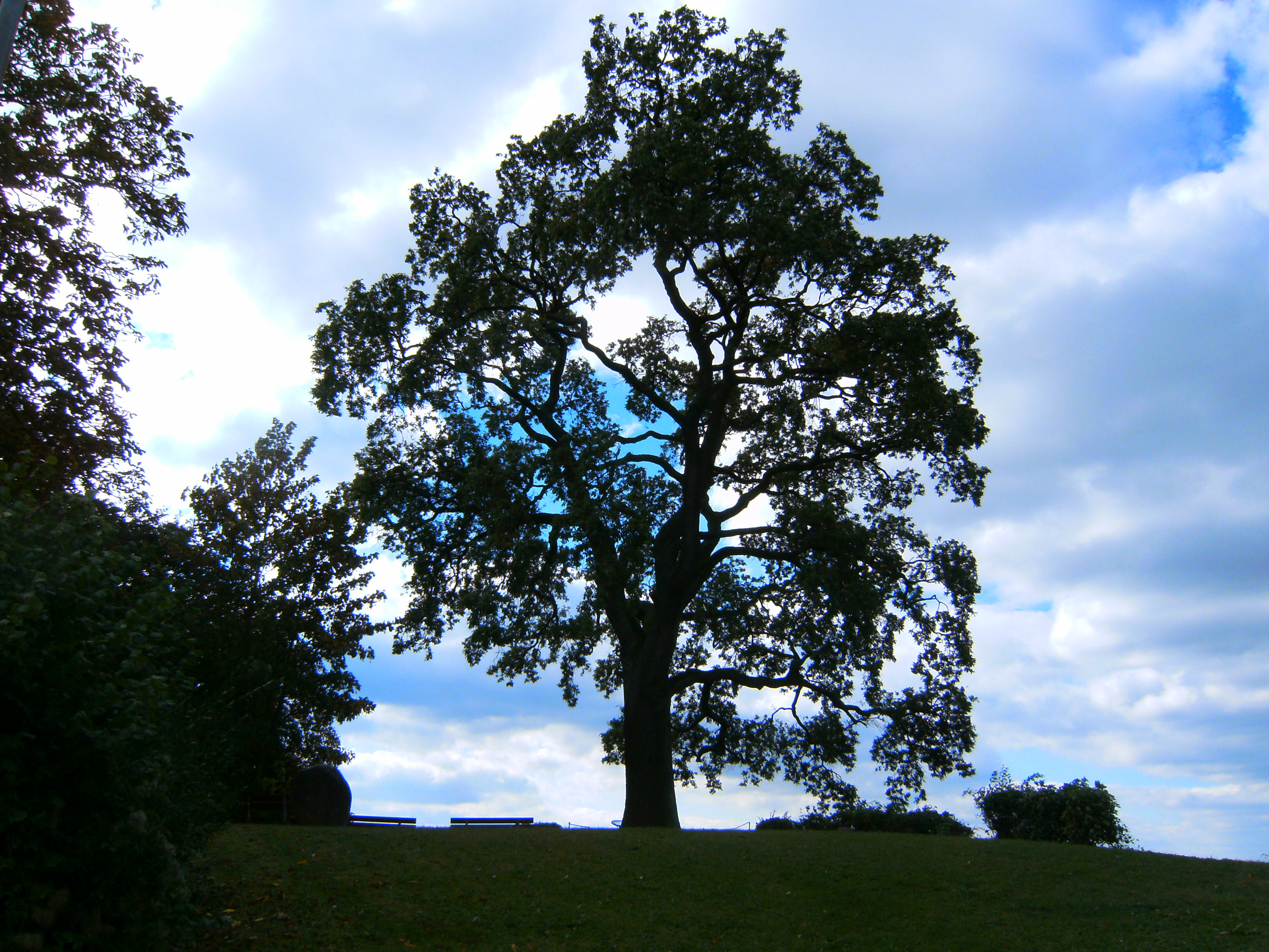 Meersburg, Germany, viewpoint Ödenstein: Emperor's oak of 1888 for William I, German Emperor.